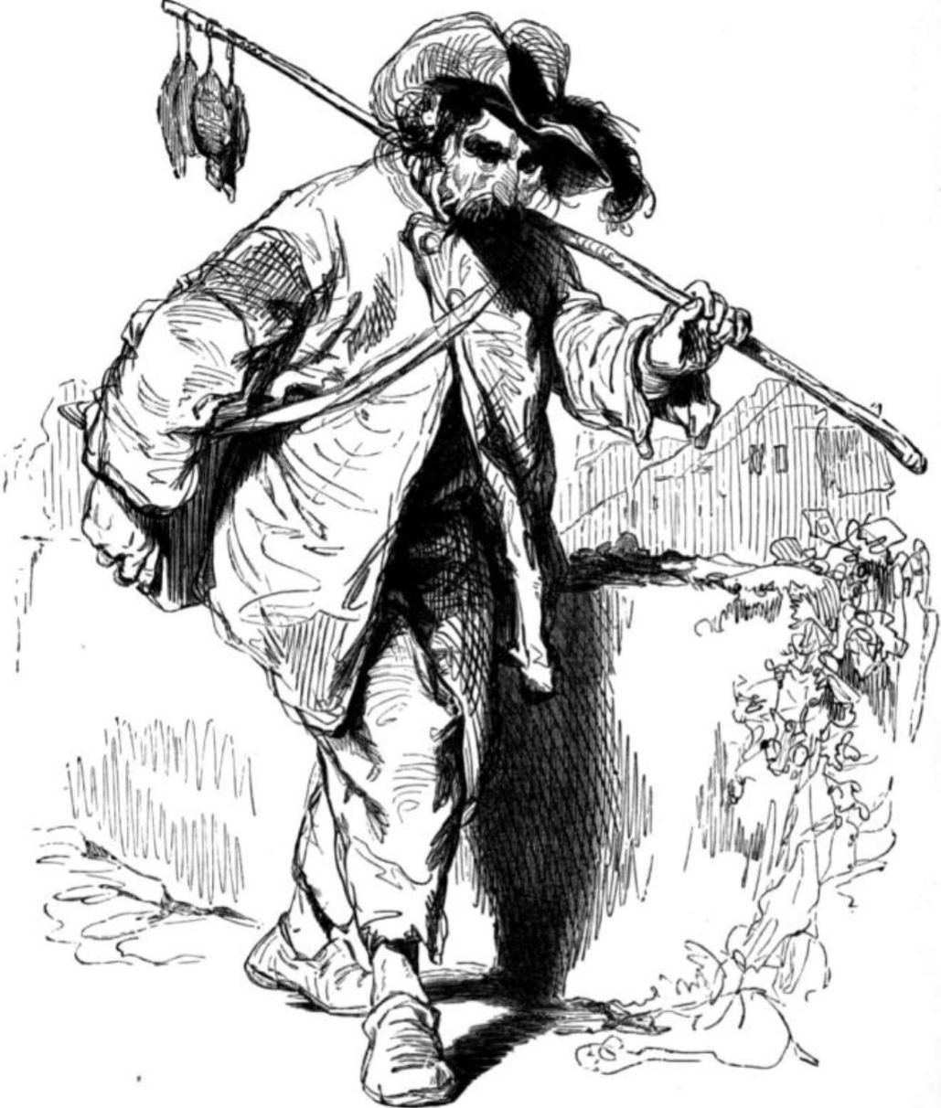 A Rat Poison Peddler